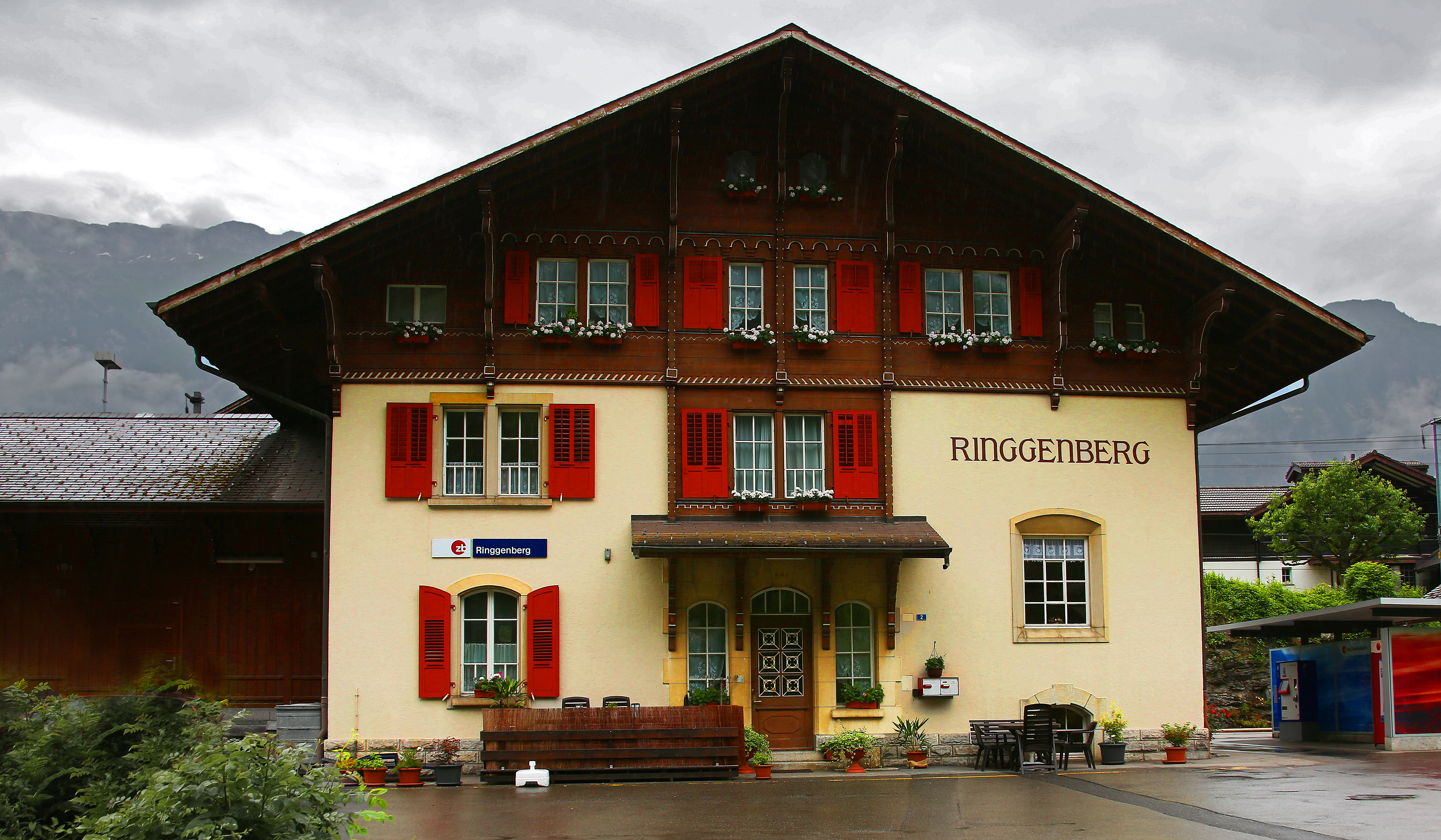 Located in the town of Ringgenberg near Interloken, Switzerland.